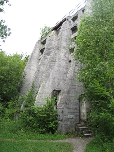 Miller's Dale - Monsal Trail view of Lime Kilns